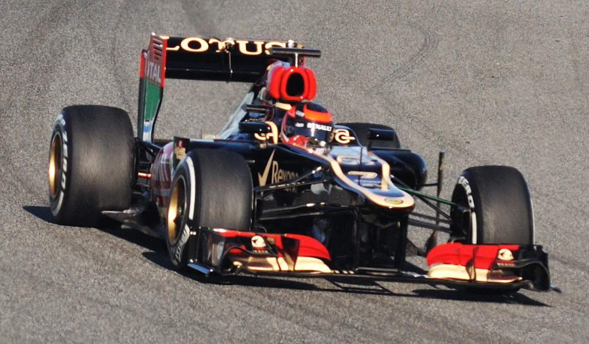 Kimi Raikkonen enters the final corner on another lap of testing on day four at the Circuit de Jerez. He's followed by Jean Eric Vergne in the Toro Roso.